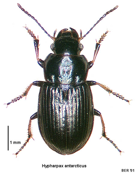 Specimen of Hypharpax antarcticus photographed by Birgit E. Rhode, Landcare Research New Zealand Ltd.